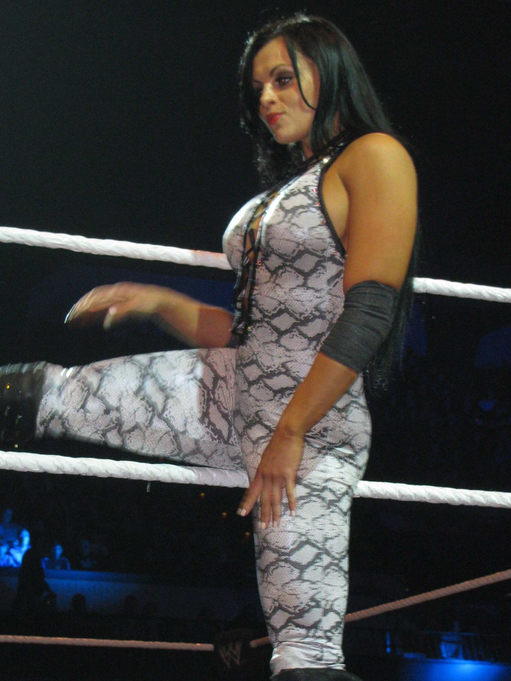 Aksana @ WWE house show in Adelaide, South Australia on the 29 July 2013